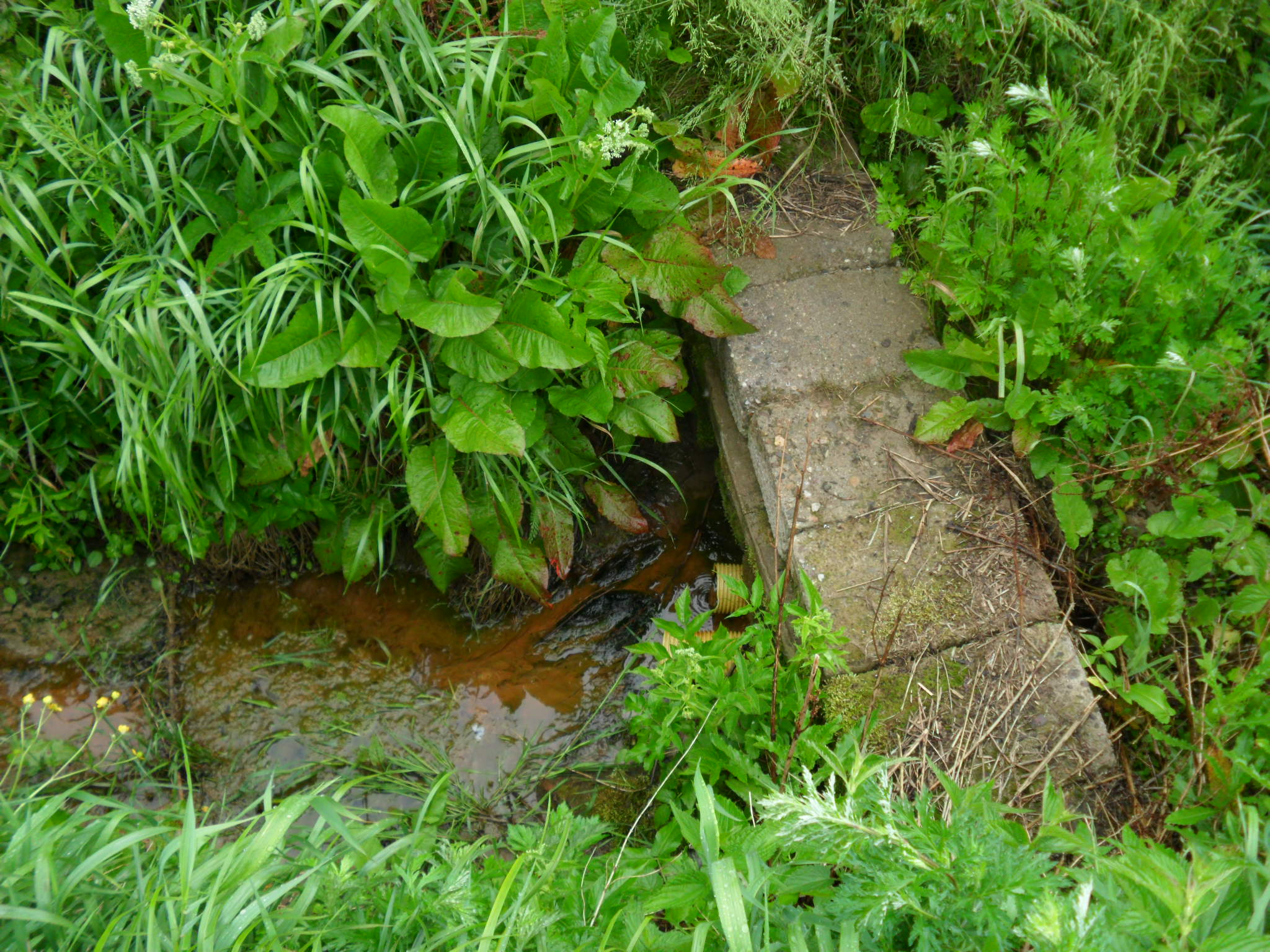 Spring of Oława (river)